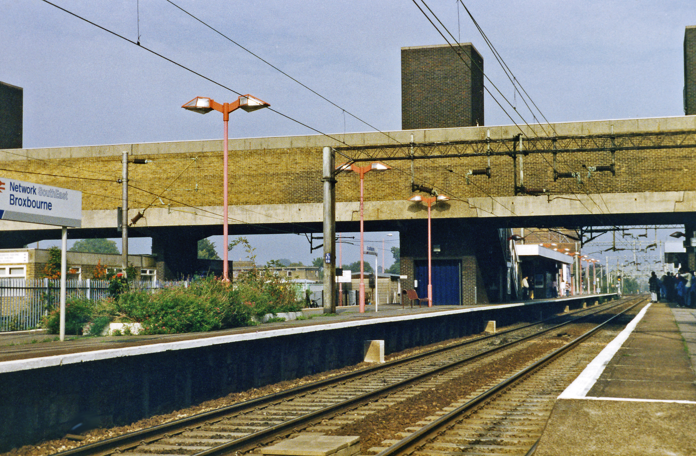 Broxbourne station, 1995. View southward, towards London: ex-GER Liverpool Street - Cambridge etc. main line, junction for Hertford East line. When the route was electrified (as far as Bishop's Stortford) in November 1960, the former 'Broxbourne & Hoddesdon' station was rebuilt here 100 yards southward.